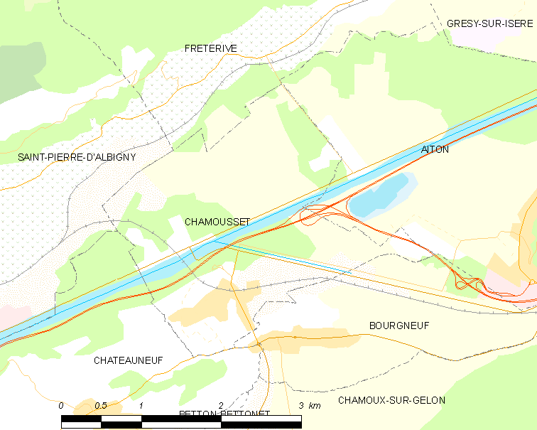 Map of French municipality